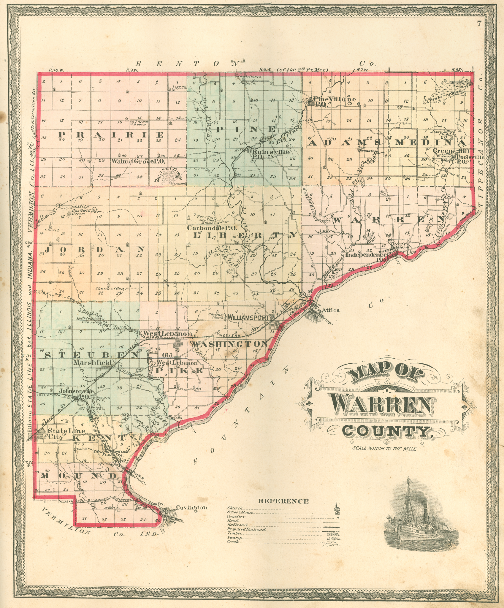 A map of Warren County, Indiana from an 1877 county atlas. The scale is 1/2 inch to the mile; the outside decorative border measures 12.75 inches wide from one outside corner to the other.